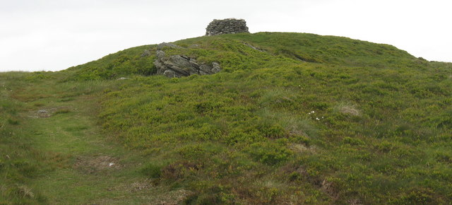 Bwrdd Arthur 'Arthur's Table' - an impressive beehive cairn marking the summit of Cadair Bronwen.